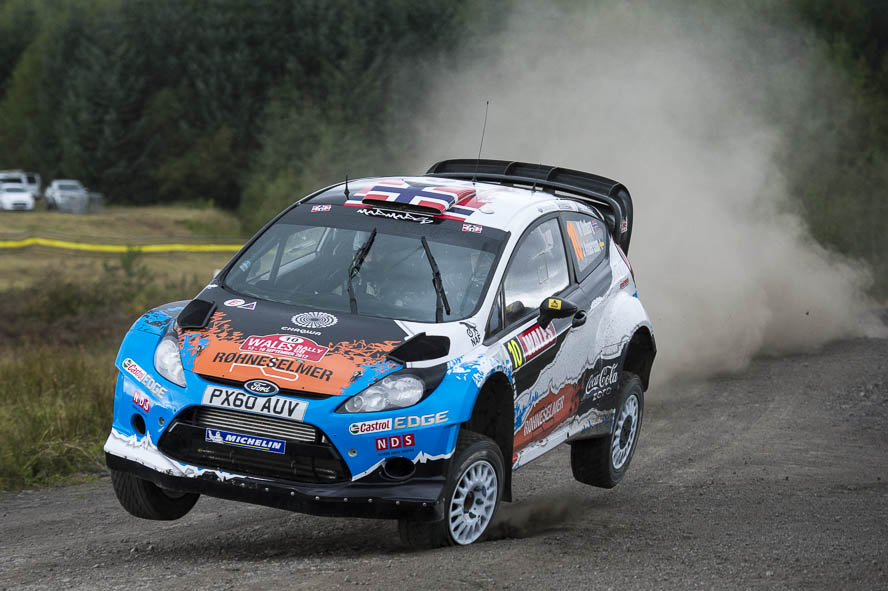 Wales Rally Great Britain 2012 Adapta WRT,Adapta World Rally Team,Ford Fiesta RS WRC,Jonas Andersson,Mads Östberg,Motorsport,Qualifying,Rally,Rallye,WRC,Wales Rally GB,Walters Arena